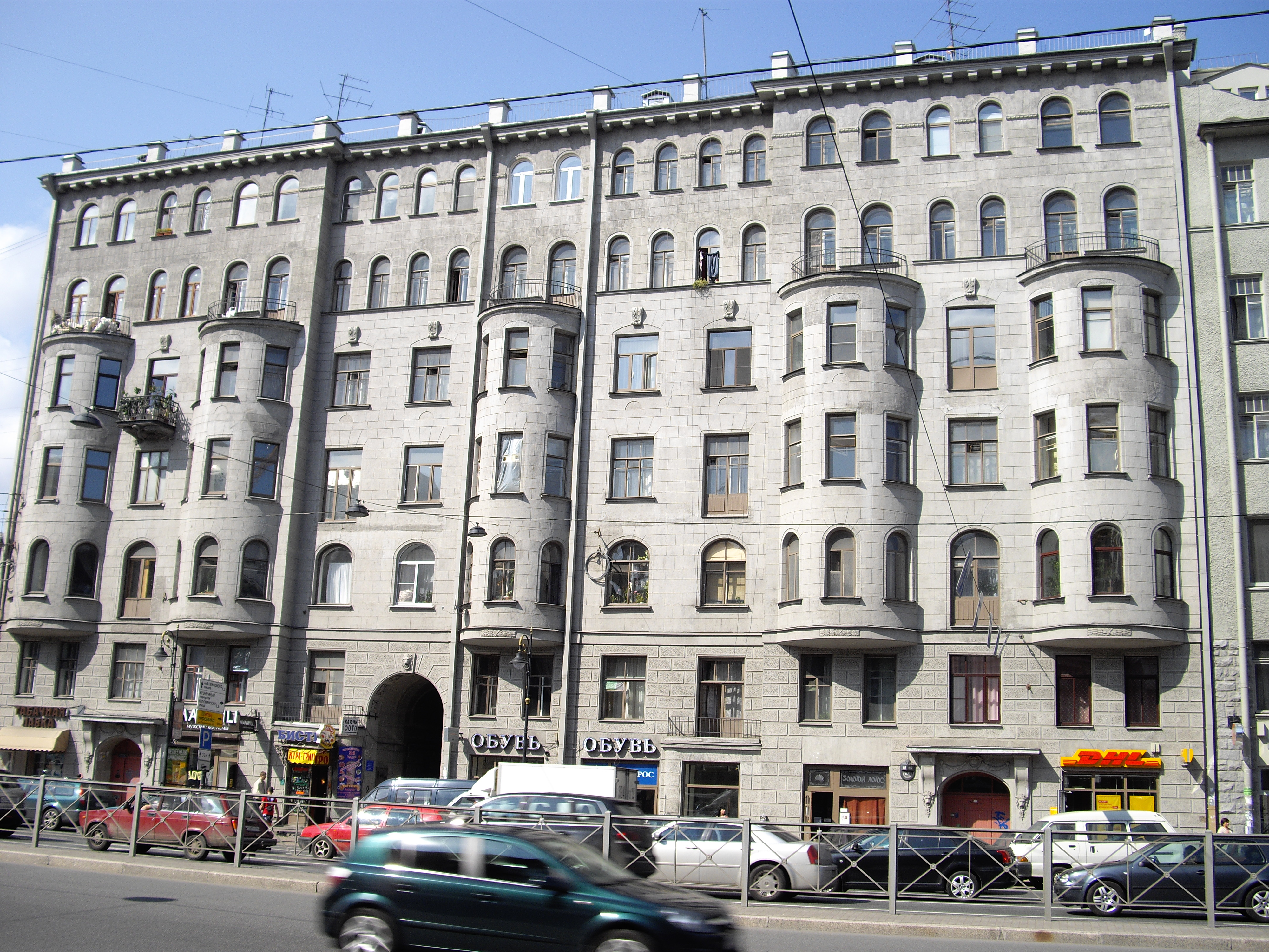 Ligovsky Prospekt, 65. Architect Wilhelm Van der Guht, 1912-1913.